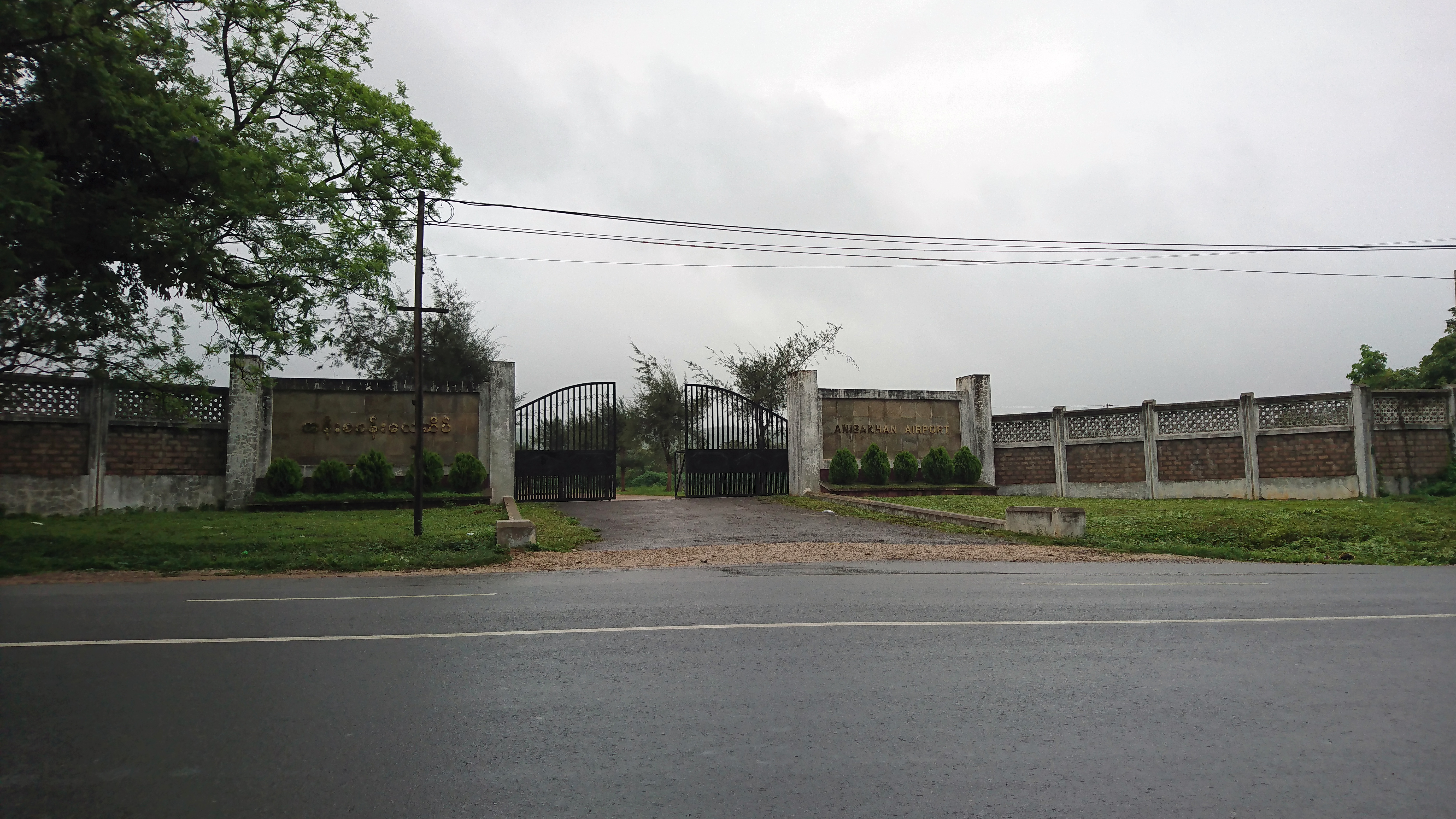 Anisakhan Airport is located at Pyin Oo Lwin, Myanmar မြန်မာဘာသာ: ပြင်ဦးလွင်မြို့ရှိ အနီးစခန်းလေဆိပ်